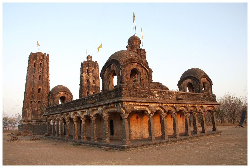 Khandoba temple in Beed city. It is situated at the eastern hills and often regarded as the symbol of the city.